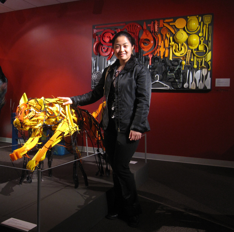 Photograph of artist Sayaka Ganz in museum gallery space with the sculpture of a tiger and an abstract wall relief.